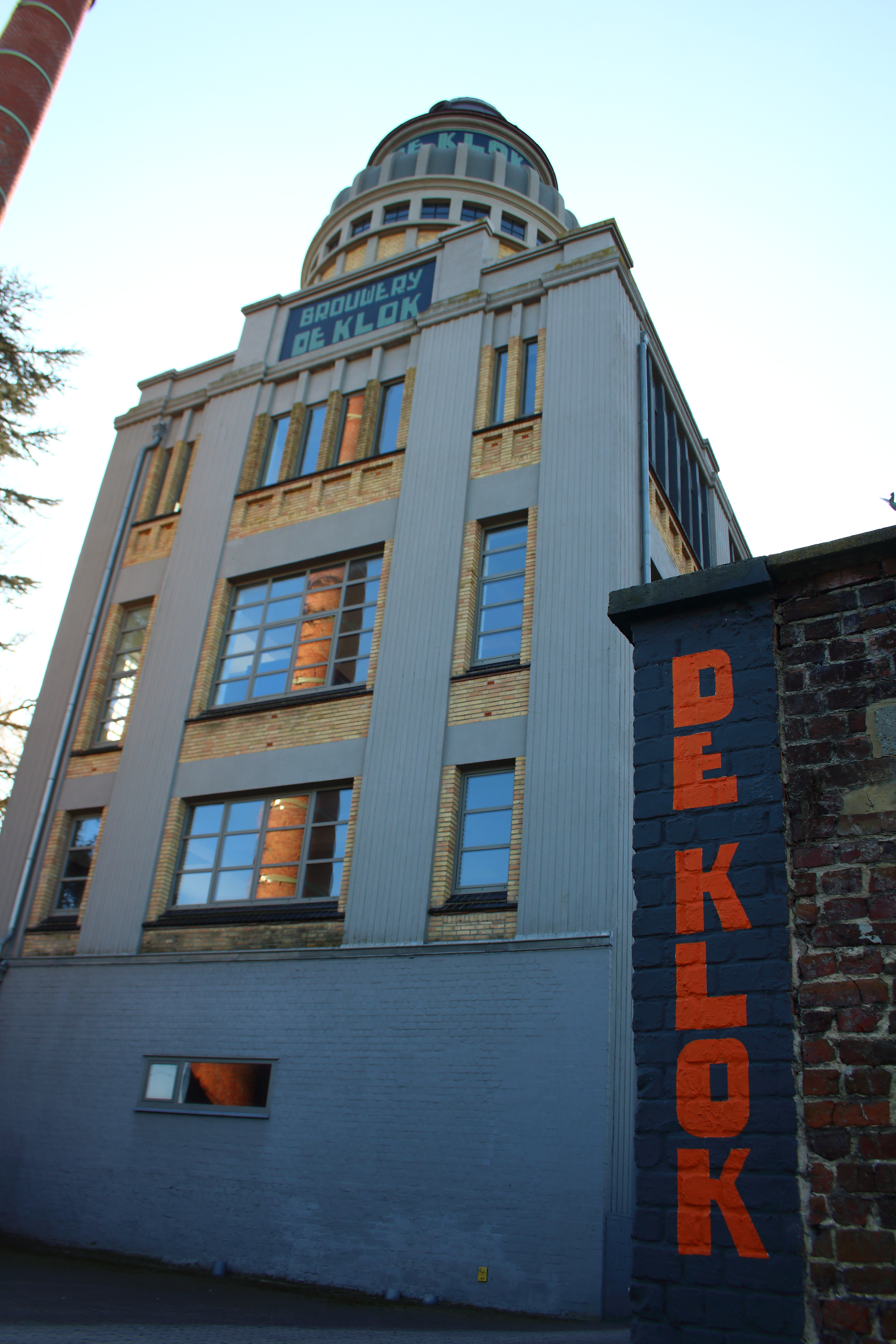 old brewery 'De Klok', Zottegem, Flanders, Belgium